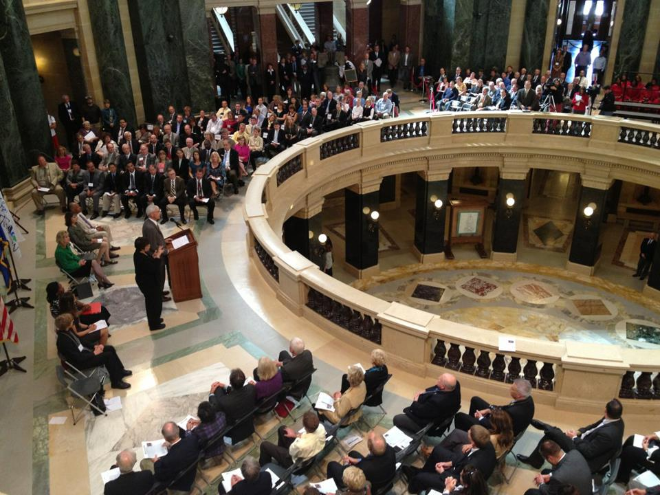 Photograph of Tony Evers giving a speech to a crowd in the Wisconsin Capitol Rotunda for the 2012 State of Education Address